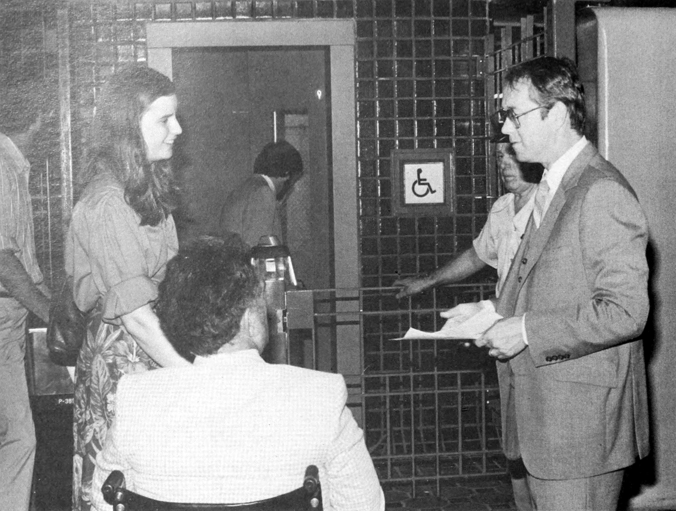 One of the new elevators at Park Street station, probably at the lobby level, in 1979